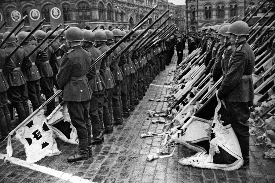 Soviet Victory Parade on Red Square